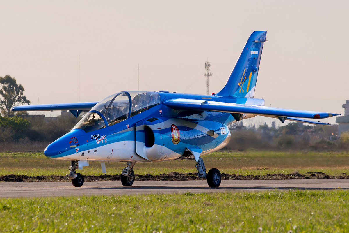 Cruz del Sur (Argentine Air Force) LMAASA IA-63 Pampa II (AT-63) at Moron